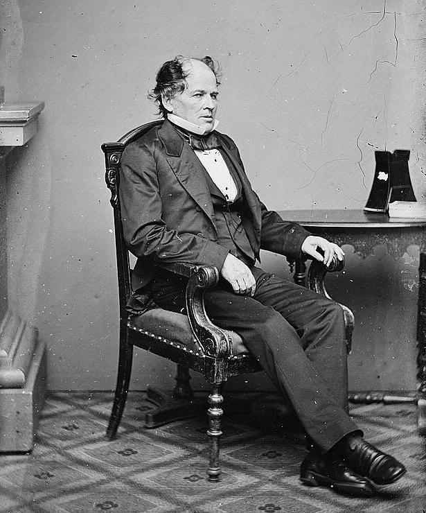 Commander Matthew Fontaine Maury